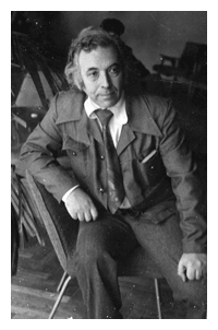 Emmanuil Lipkind 1973